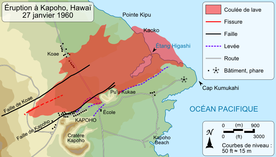 Map of the lava flow the january 27, 1960 during the 1960 Kilauea eruption, Hawaii, United States